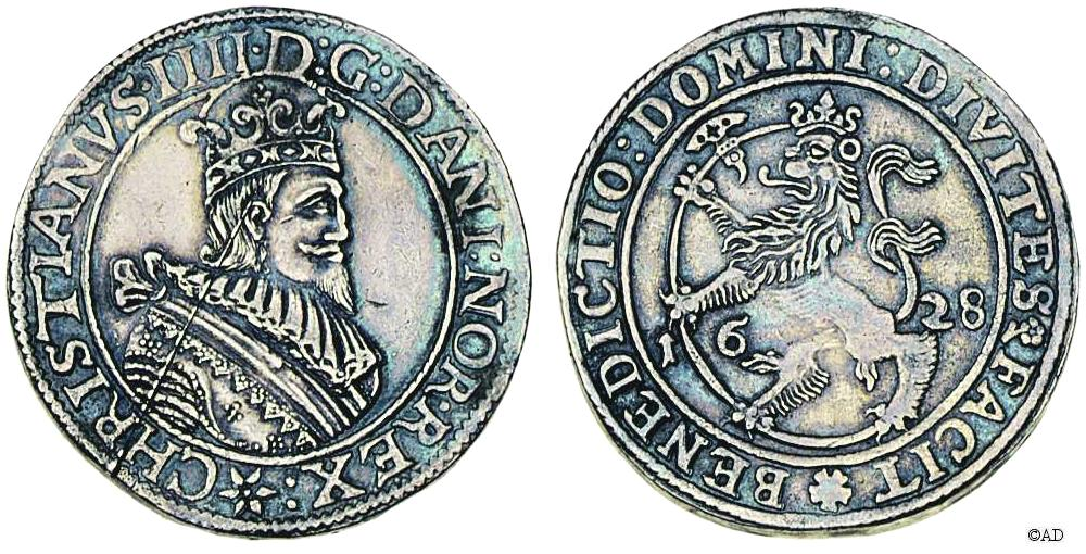 A Norwegian speciedaler with Christian IV of Denmark on the obverse and a crowned lion with a curved halberd on the reverse.